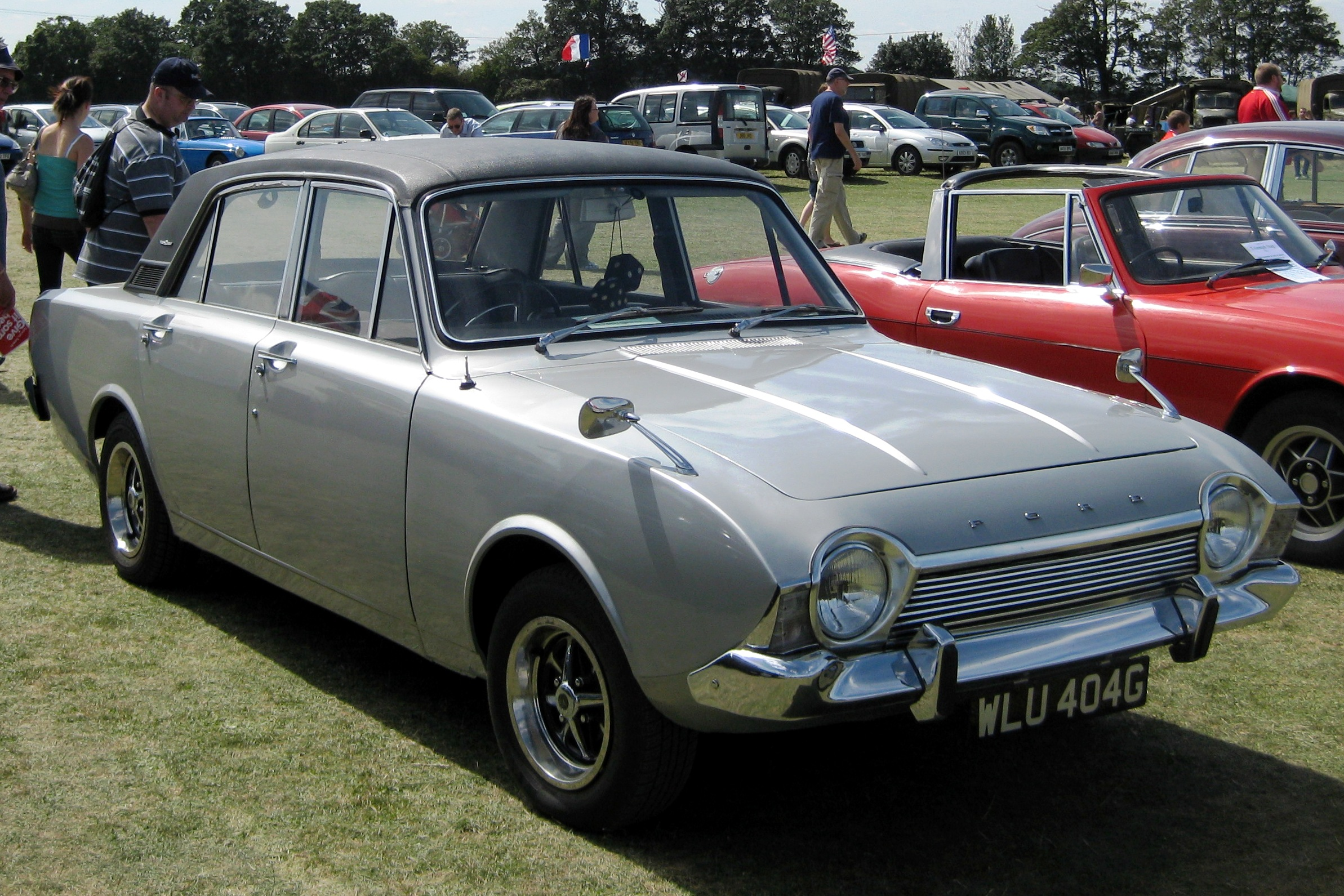 Ford Corsair 2000E near Bury St Eds